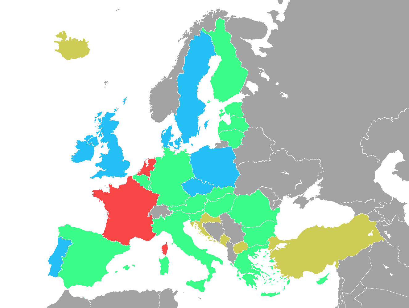 European Constitution Ratification (on jenuary 2007)